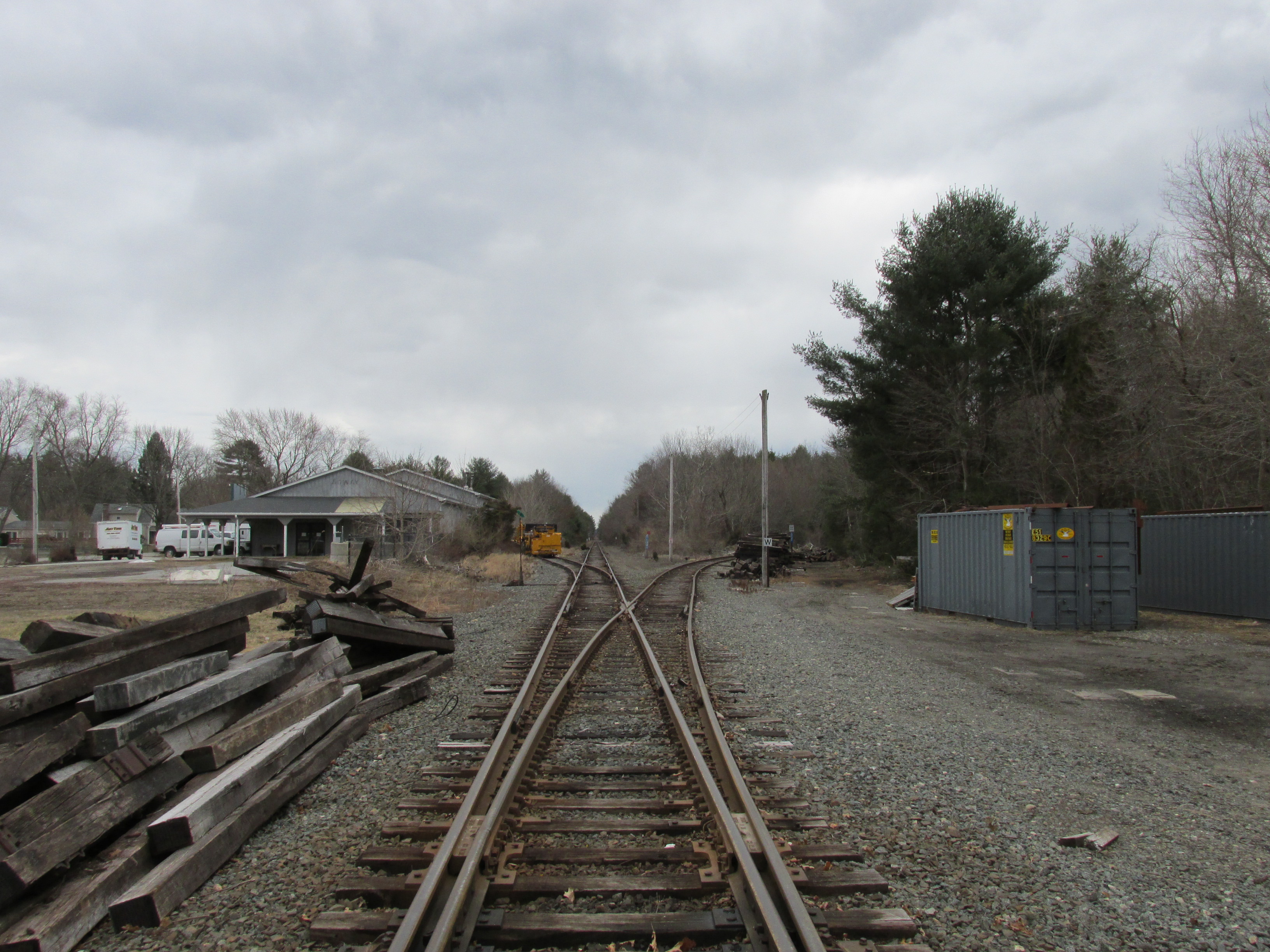 Railroad junction, Myricks Massachusetts - the line straight is to New Bedford; the branch at right goes to Fall River